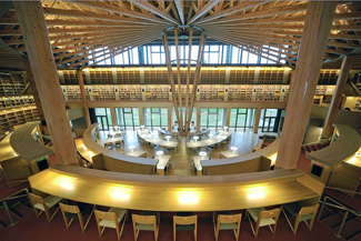 Akita International University library